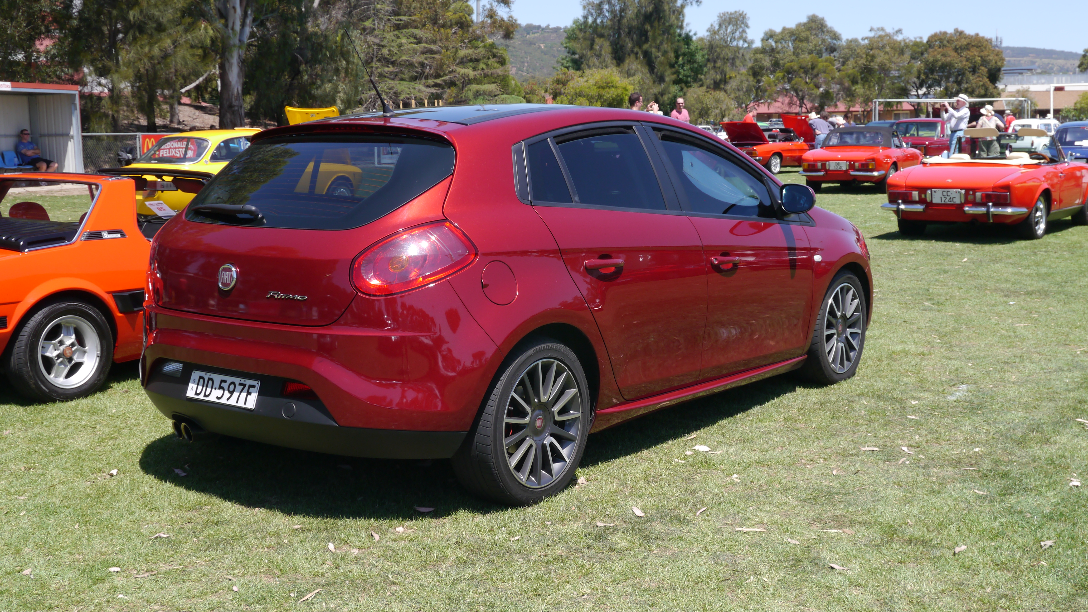 I think Australia was the only market in the world, that took on the Ritmo badge for the Bravo?